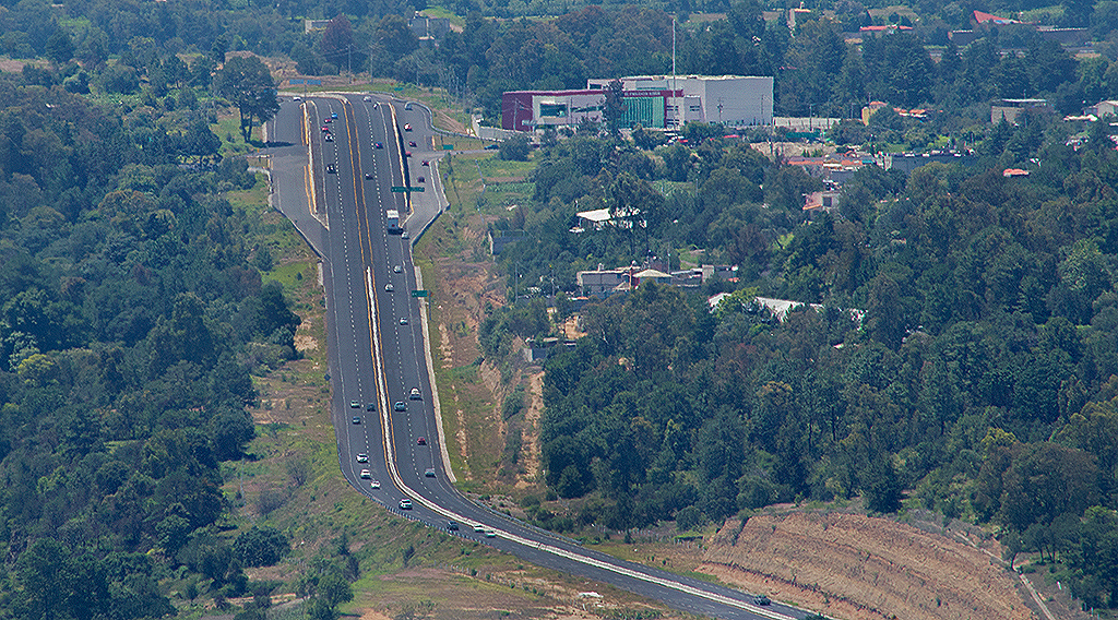 Periférico ciudad de Tlaxcala Poniente